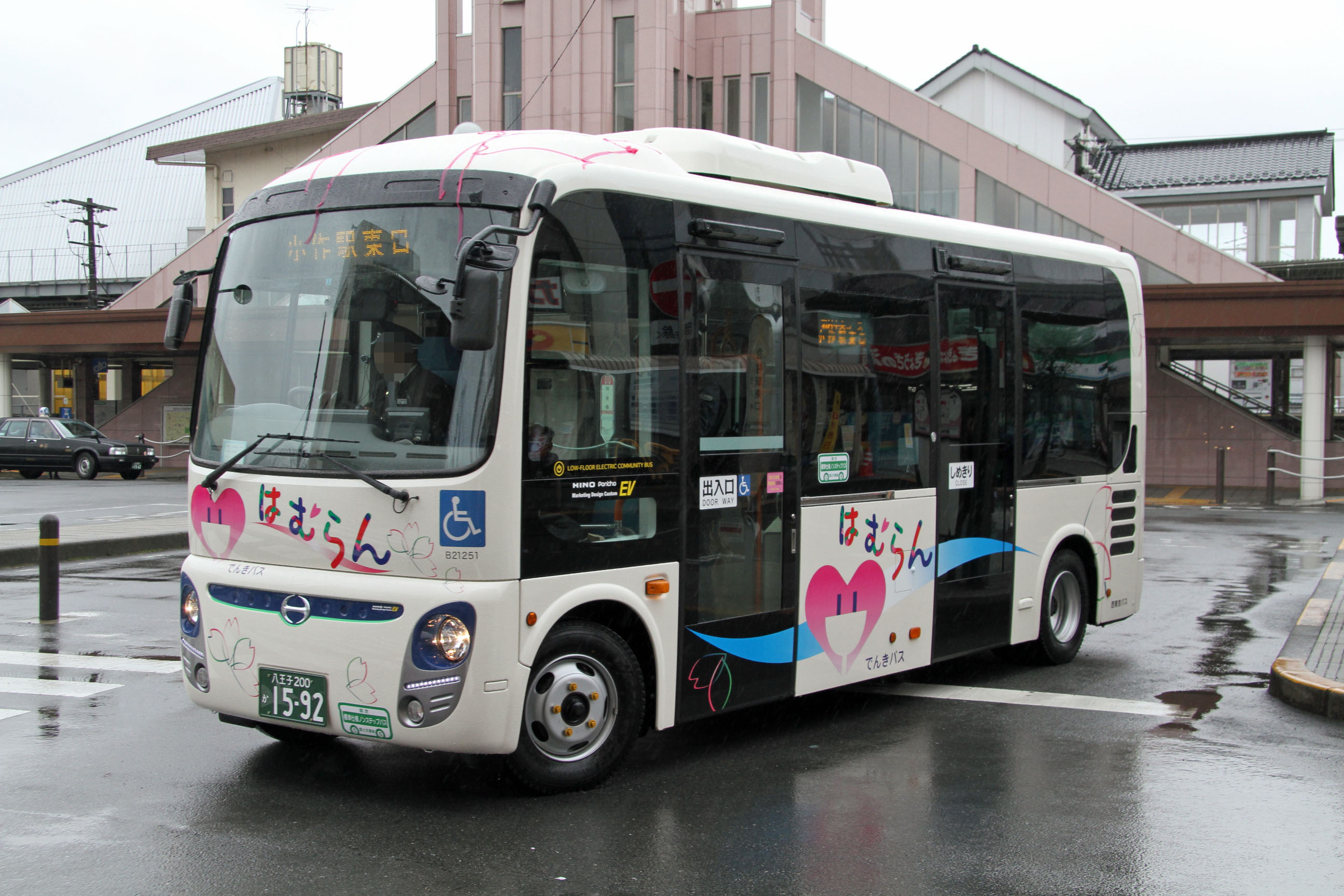 Hamura City Community Bus "Hamuran" Electric Bus (named after "Hamura" and "run") 羽村市コミュニティバス「はむらん」電気バス（「羽村」+「run（走る）」）